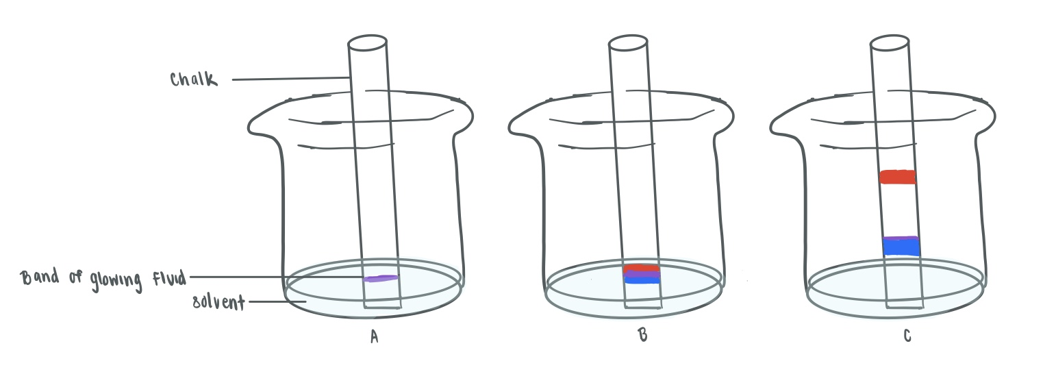 Demonstration of glowmatography with purple dye 1: Solvant travels up the chalk. 2: Separation starts as the red dye is attracted to the mobile phase and starts traveling up while the blue dye is attracted to the stationary phase and stays relatively still. 3: Complete separation occurs as time passes.